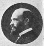 Portrait of American Library Association president